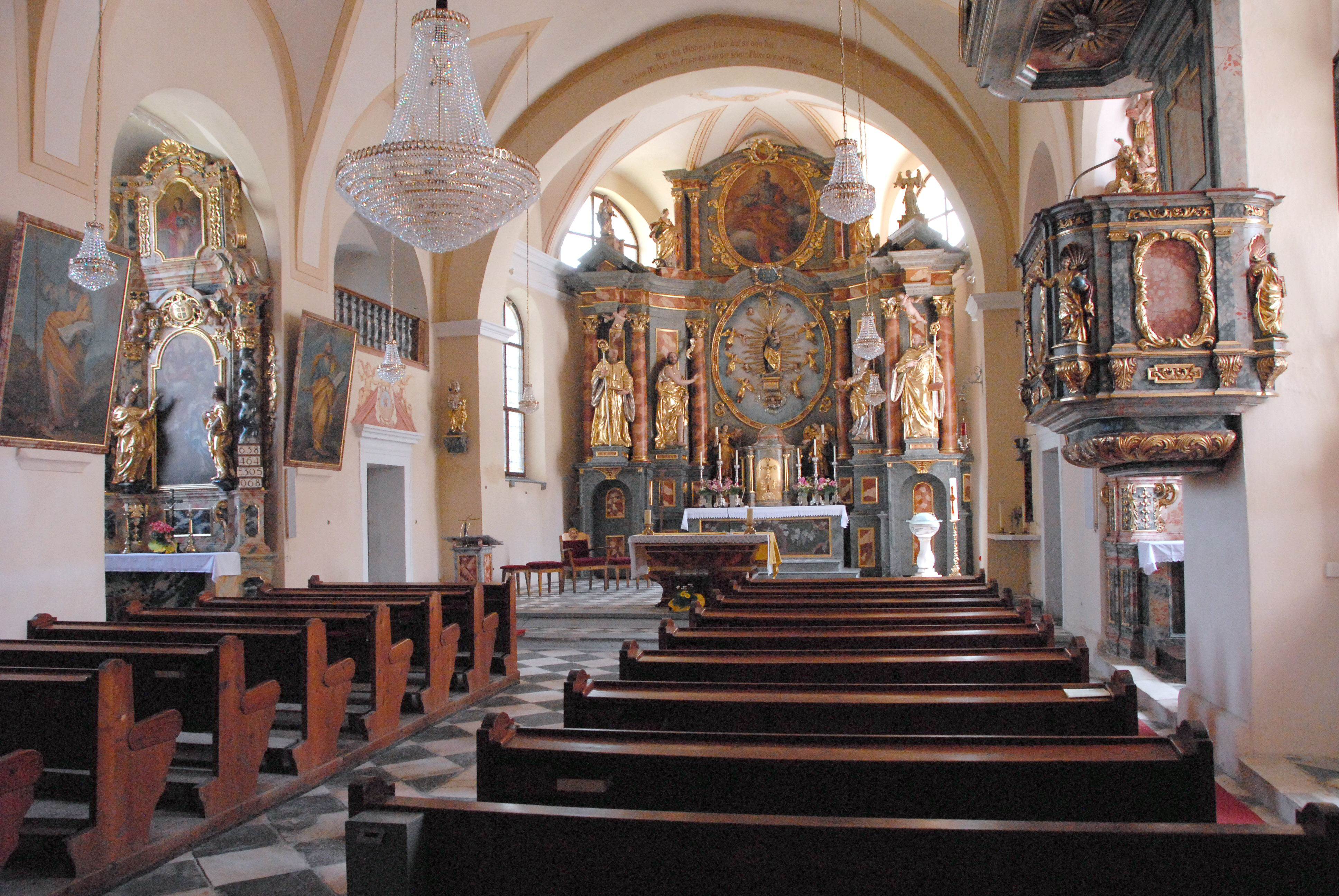 Interior of the parish church Mary Ascencion Day in Maria Rain, district Klagenfurt Land, Carinthia / Austria / European Union